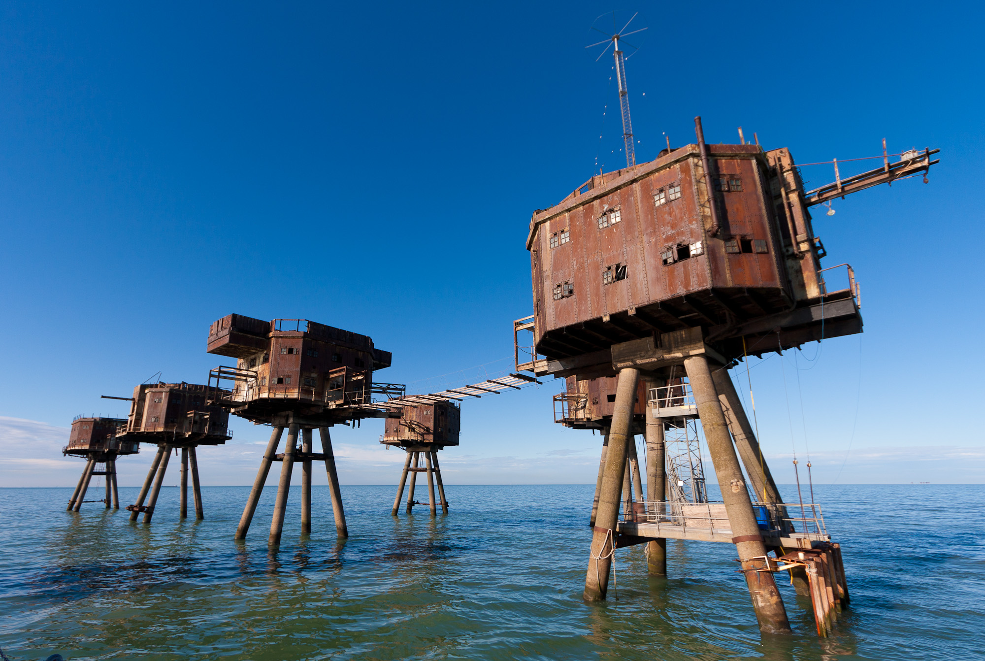 The Red Sands Maunsell sea fort in the Thames estuary, off the north coast of Kent. The new landing stage, ladder and antenna on the foreground fort, and the catwalk linking it to its neighbour, appear to date from the period 2007-8, when the fort was used for legal broadcasts by Red Sands Radio, before being declared unsafe for occupation.